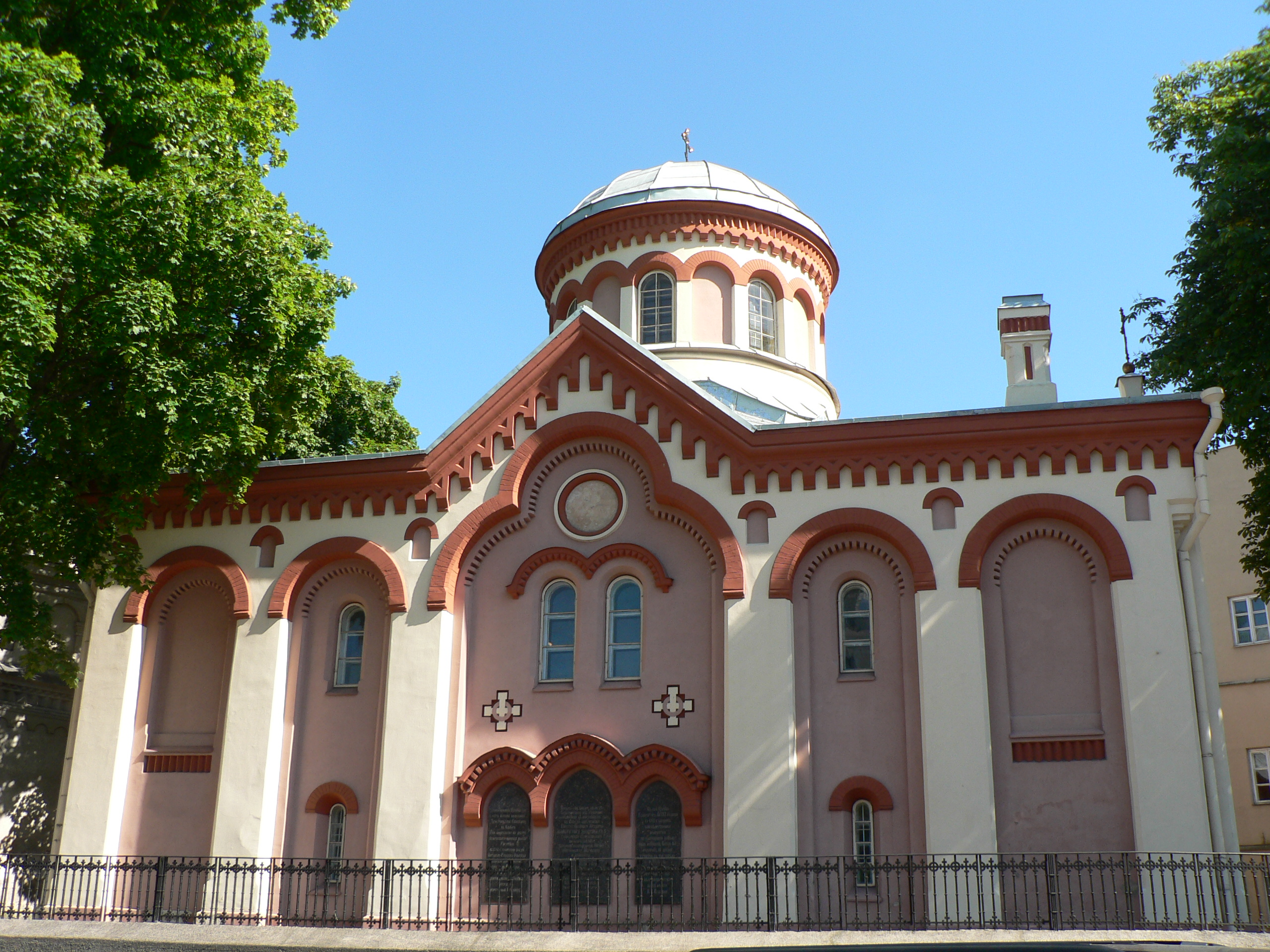 St. Parasceve Orthodox Church in Vilnius, Lithuania.